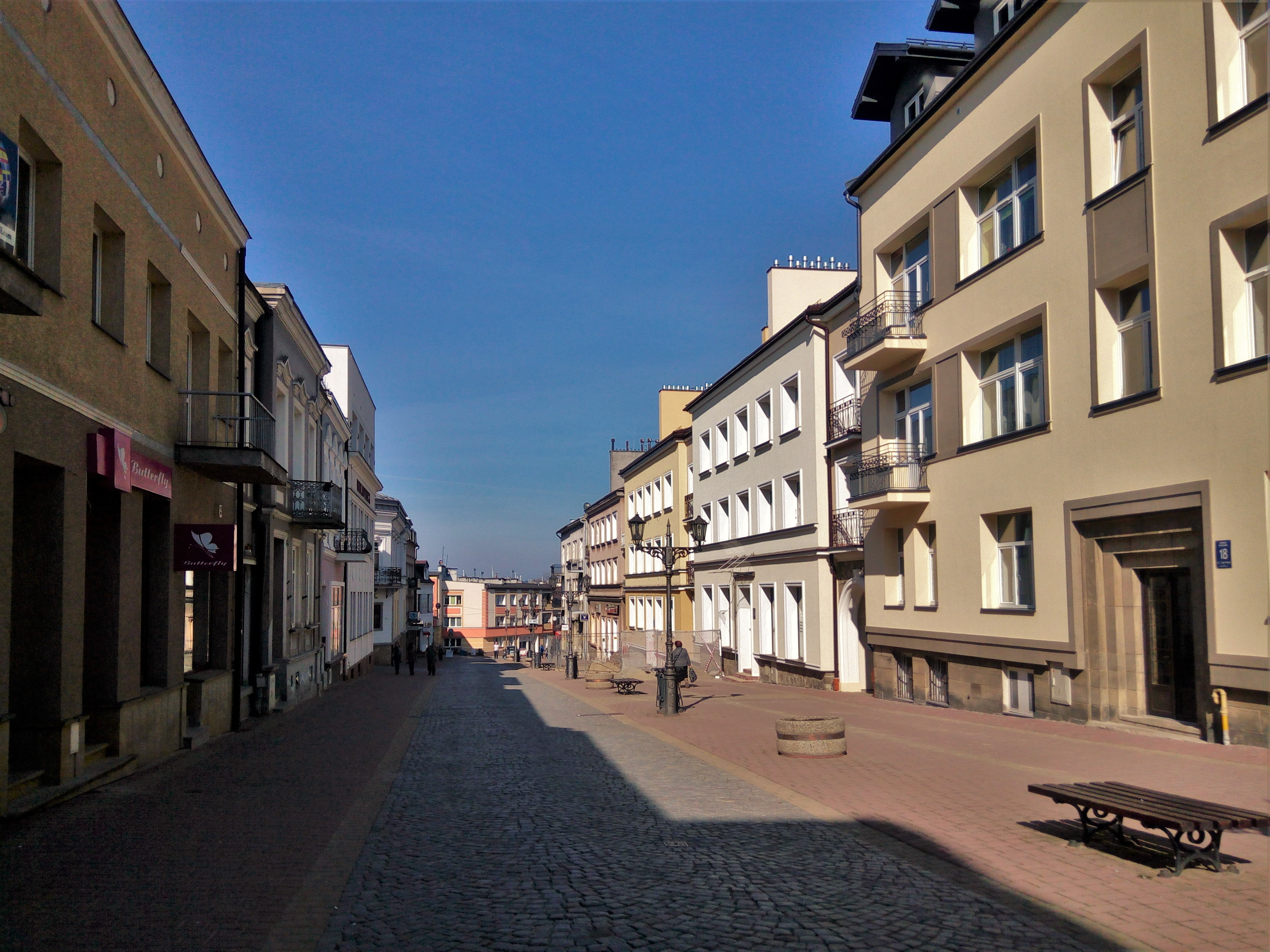 3 Maja Street, the main pedestrian zone in Gorlice, southern Poland.